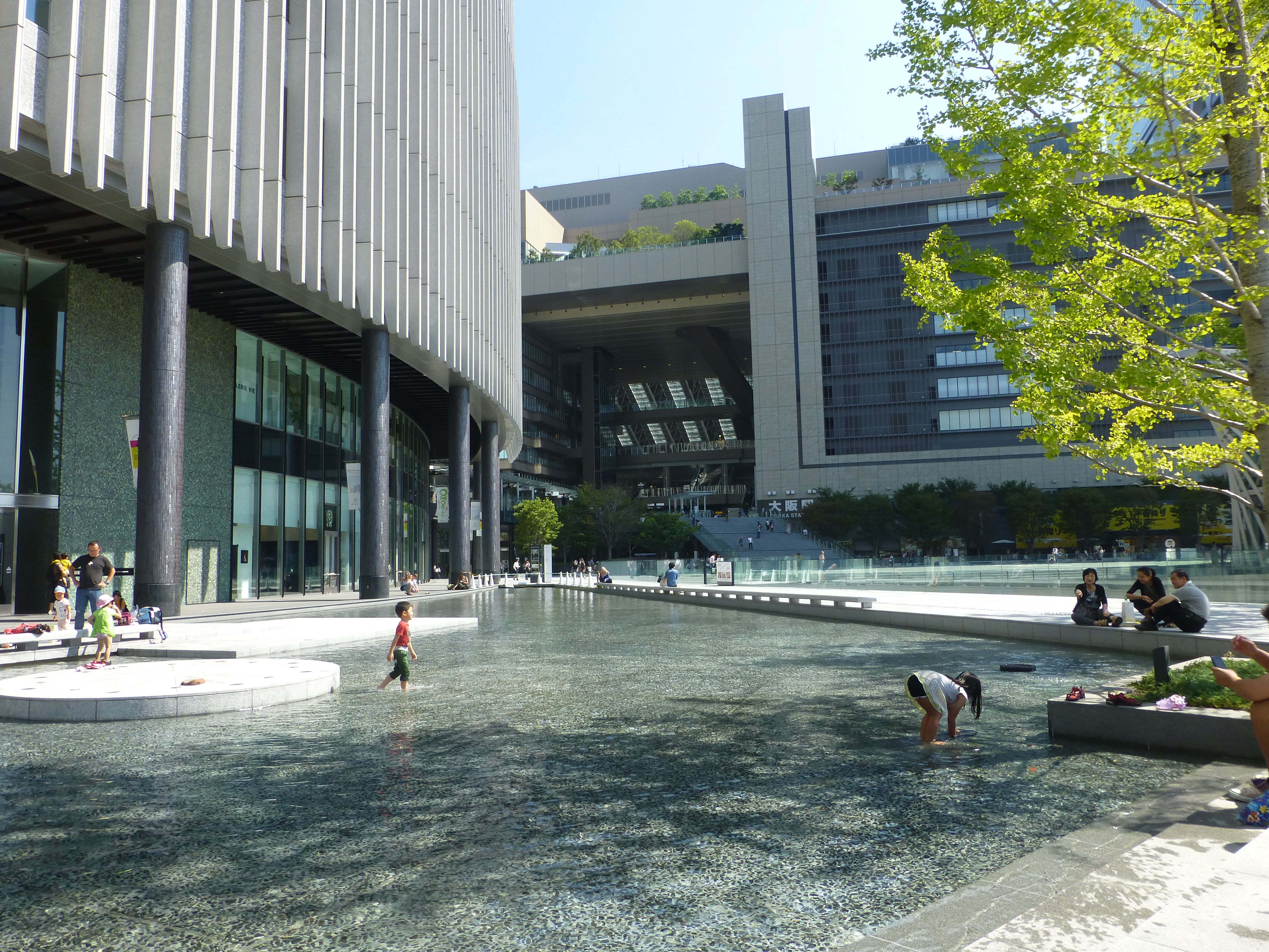 North entry of Umeda station, Osaka, Japan.